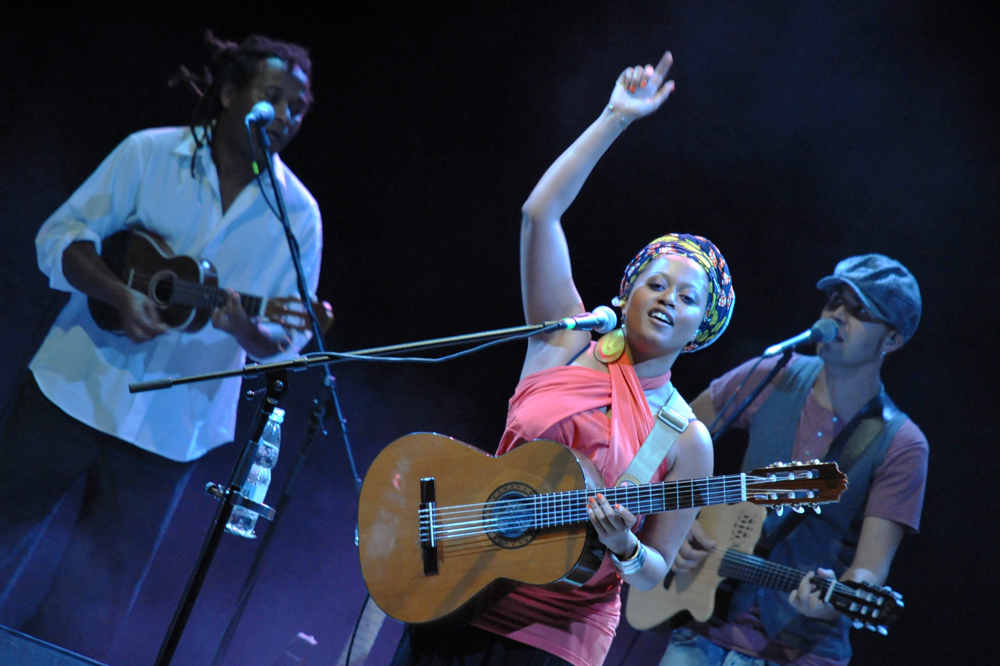 Portuguese singer Sara Tavares performing in Warszawa in September 2011.